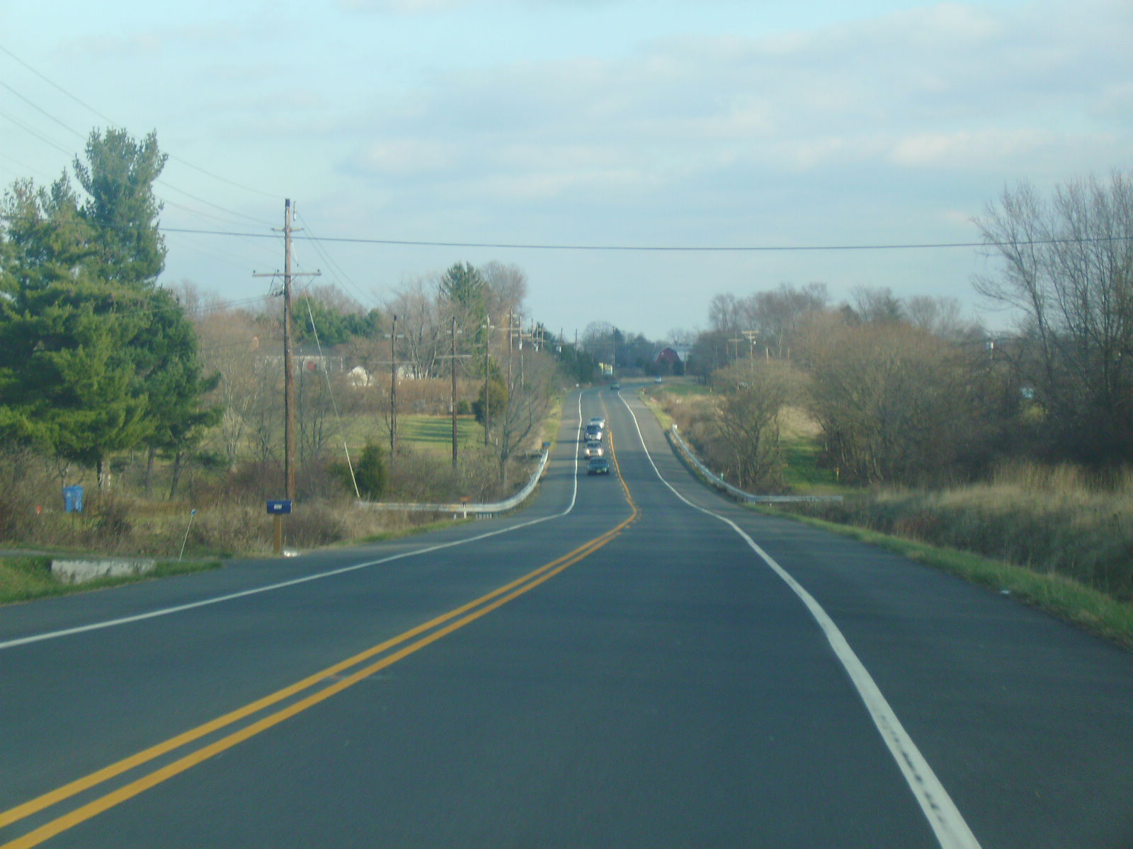 New Jersey Route 12 in Hunterdon County.